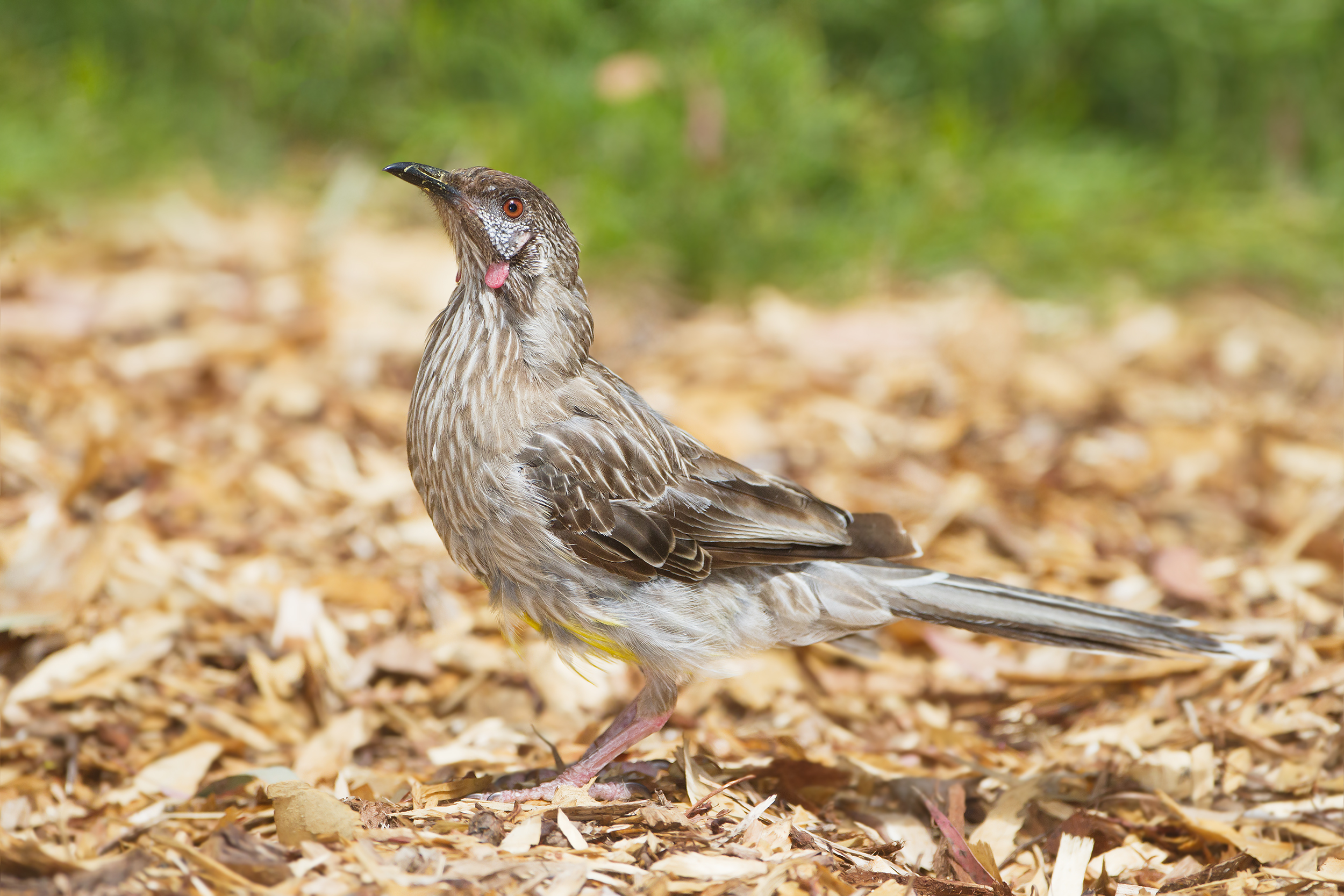 Red Wattlebird (Anthochaera carunculata), Australian National Botanic Gardens, Canberra, Australia